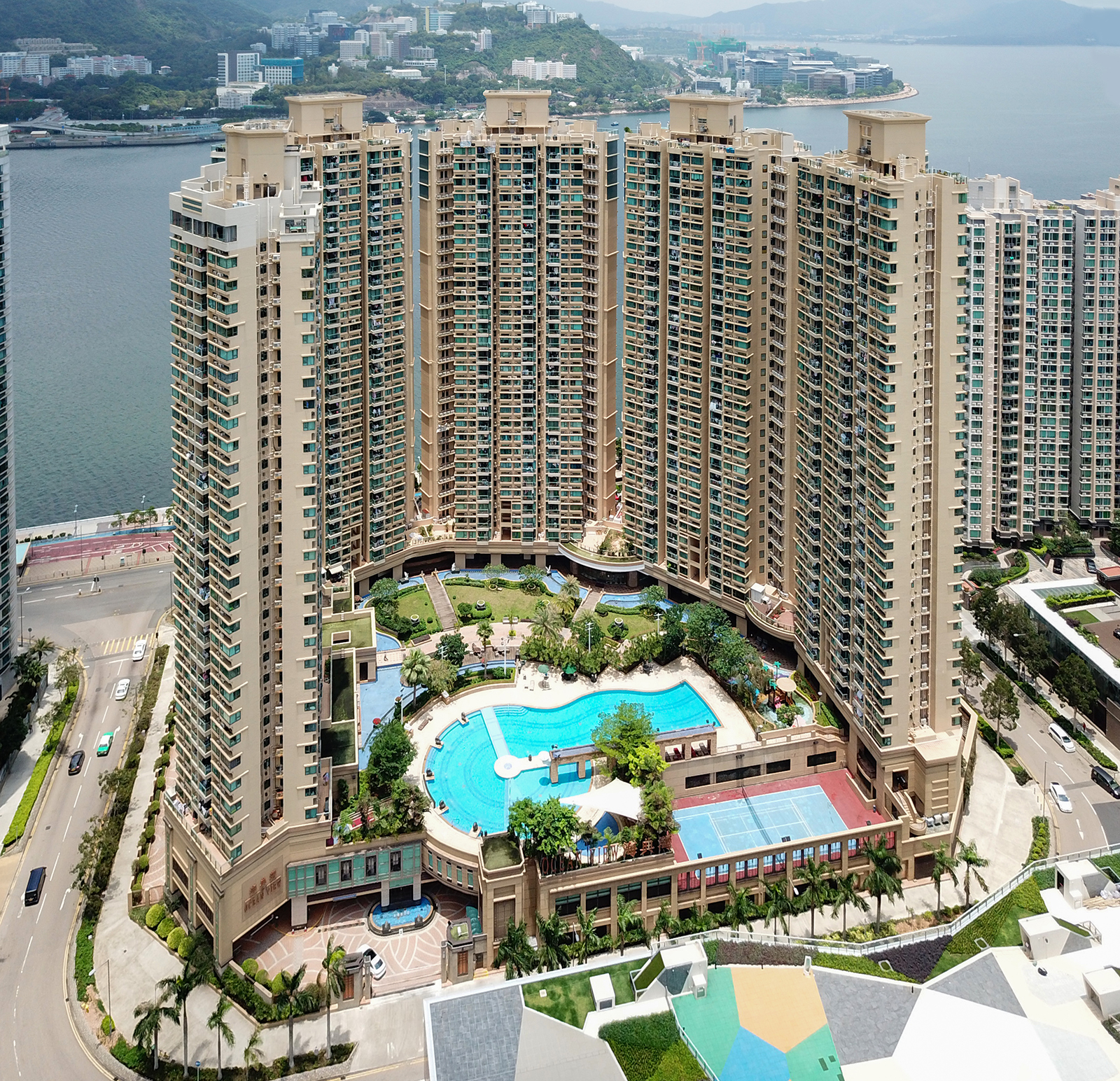 Ocean View